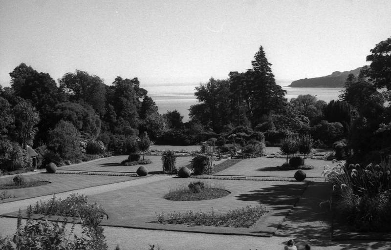 The Walled Gardens and other grounds of Brodick Castle, Isle of Arran, Scotland.